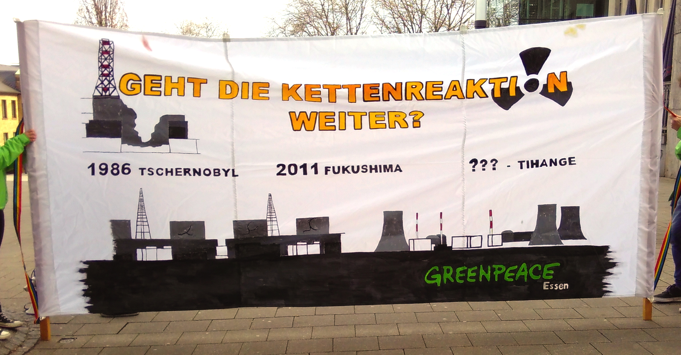 Chainreaction carries on? 1986 Chernobyl – 2011 Fukushima – ???? Tihange Protest banner about the neclear katastrophe in Fukushima (Japan). Used at the protest march at 11th march 2017 in Essen, Germany